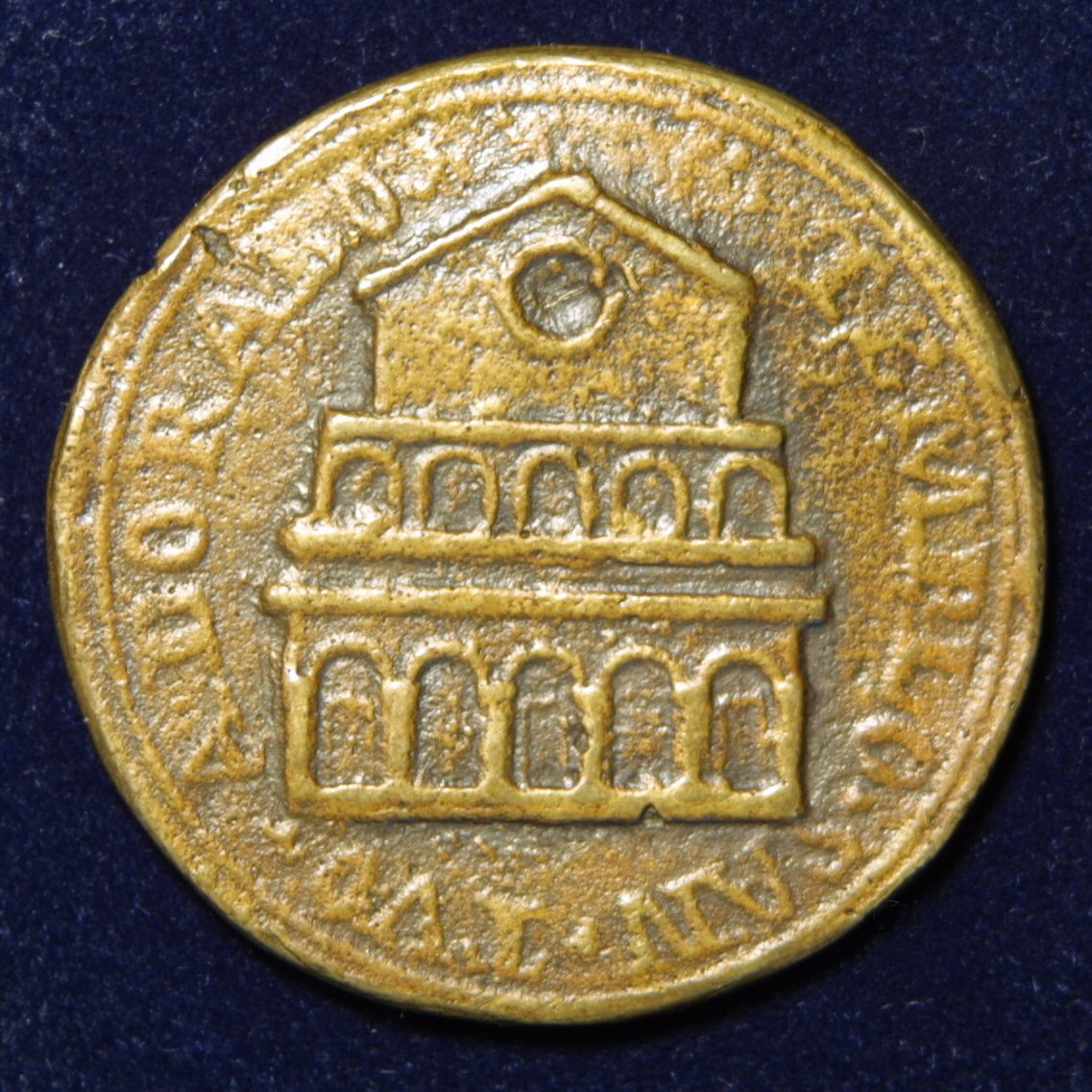 Medal Pontyfikalny Grzegorza III Revers. Papstmedaille Gregor III - Avers. ADORABO IN TEMPLO SAN. TUO